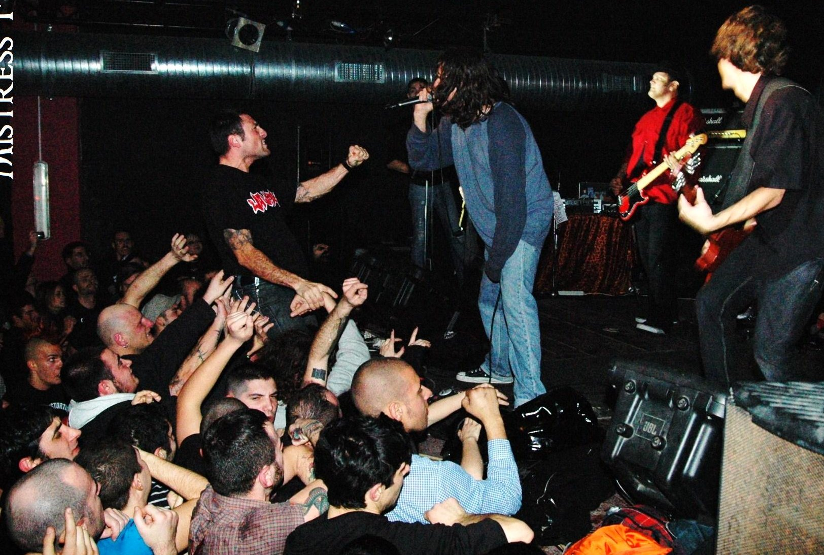 Road to Ruins festival, Rome, init, 15 december 2007